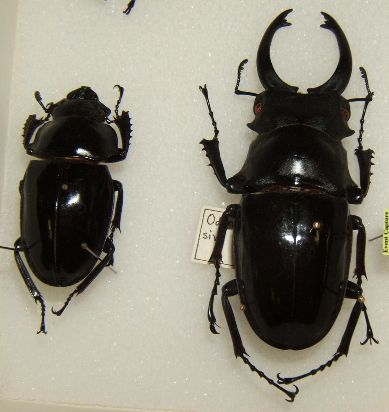 Odontolabis siva adult taken by Shawn Hanrahan at the Texas A&M University Insect Collection in College Station, Texas.